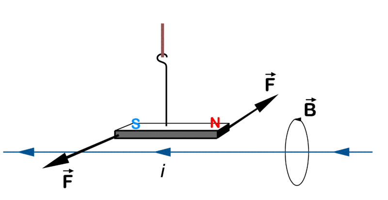 Schematic impression of Oersted's experiment